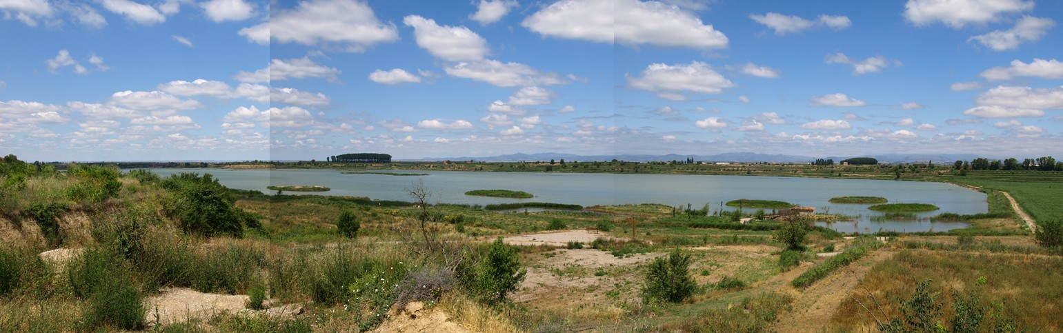 Ivars lake. Panoramic